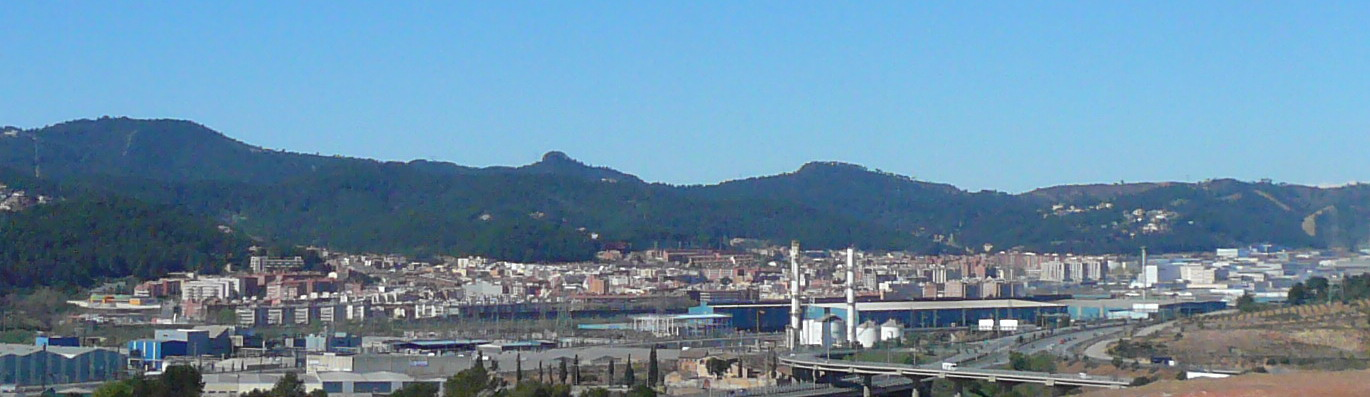 Sant Andreu de la Barca